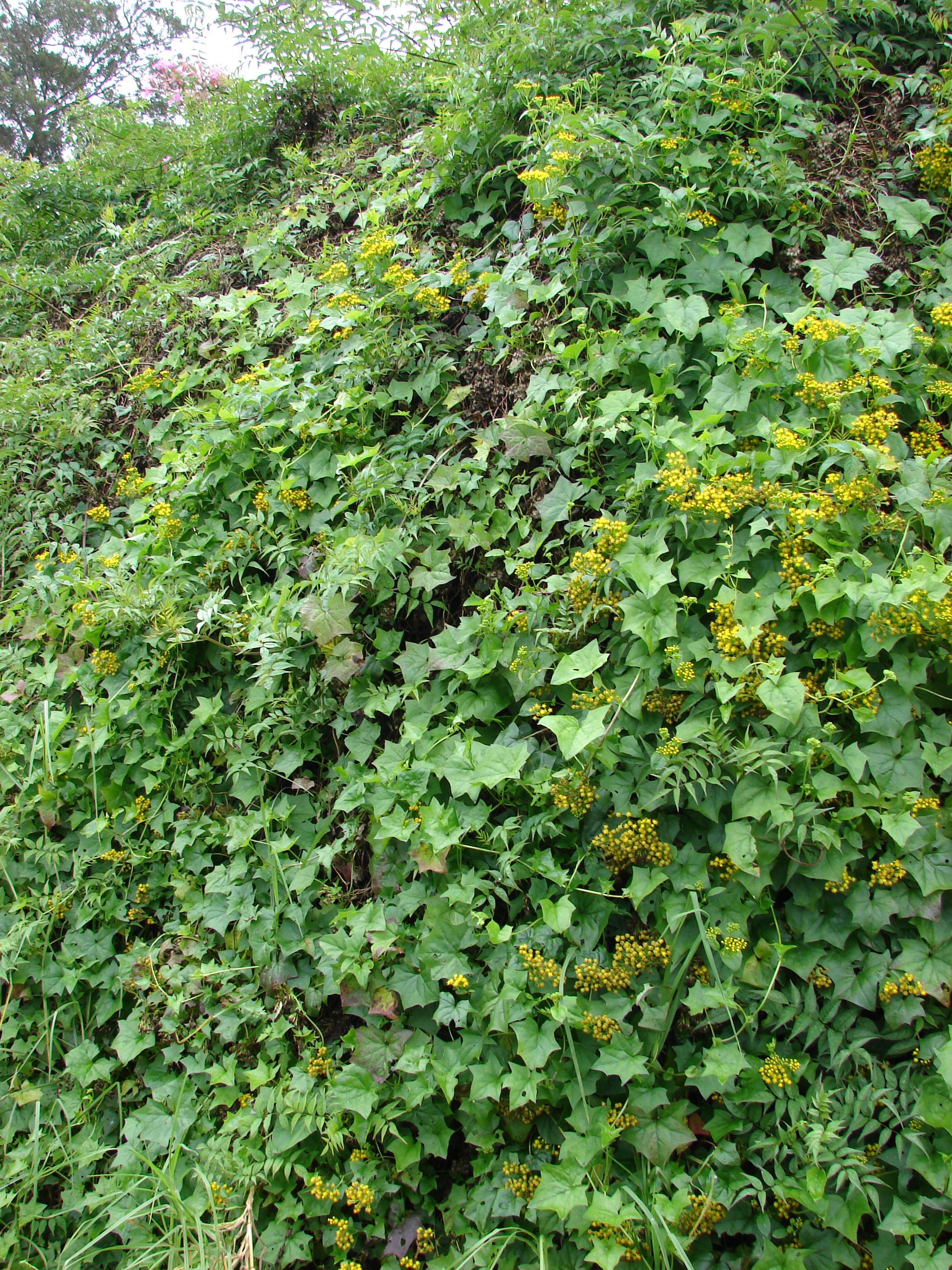 Delairea odorata (flowering habit). Location: Maui, Kula